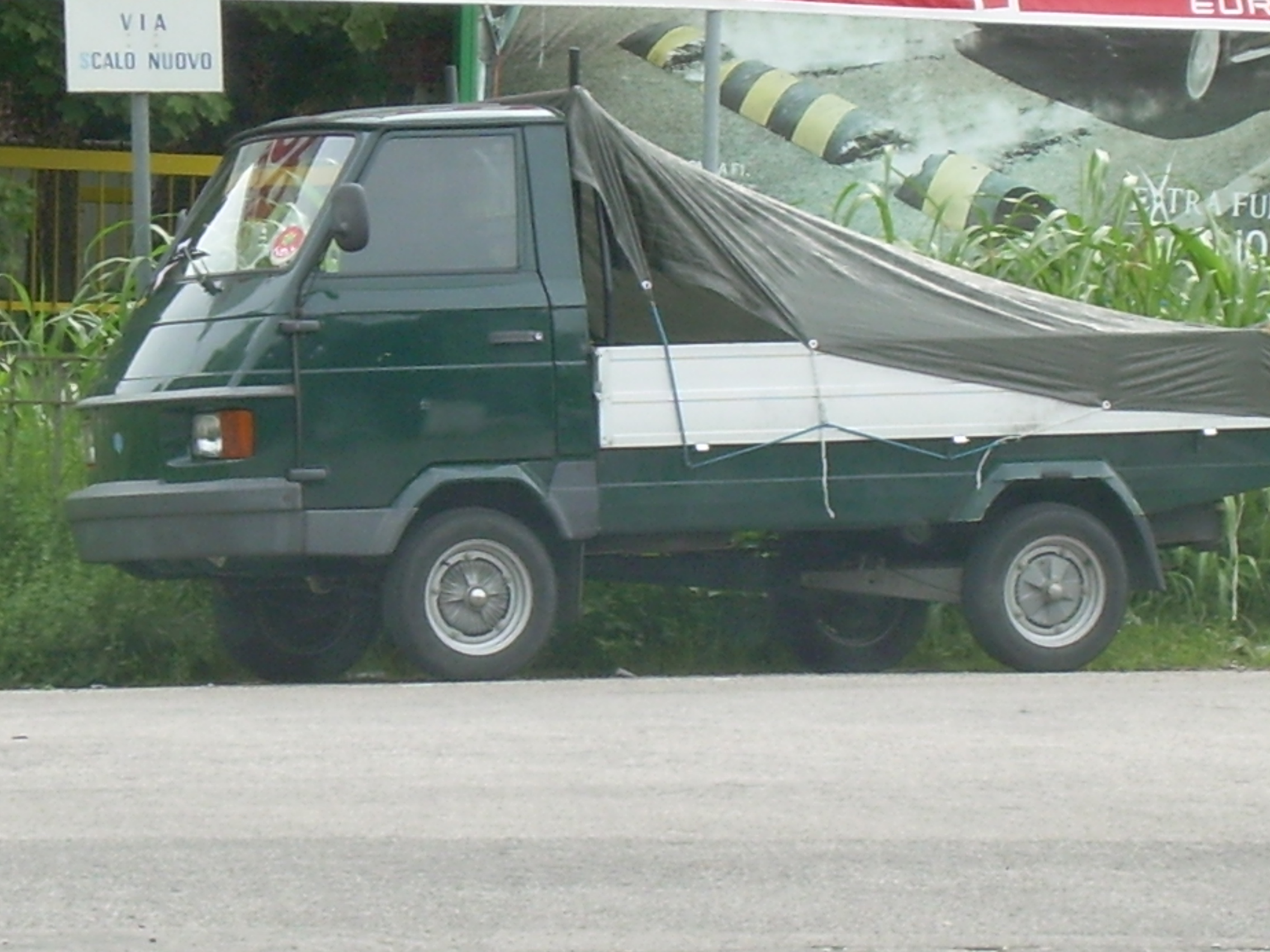 Autore:Powering Licenza: Una Ape Poker.